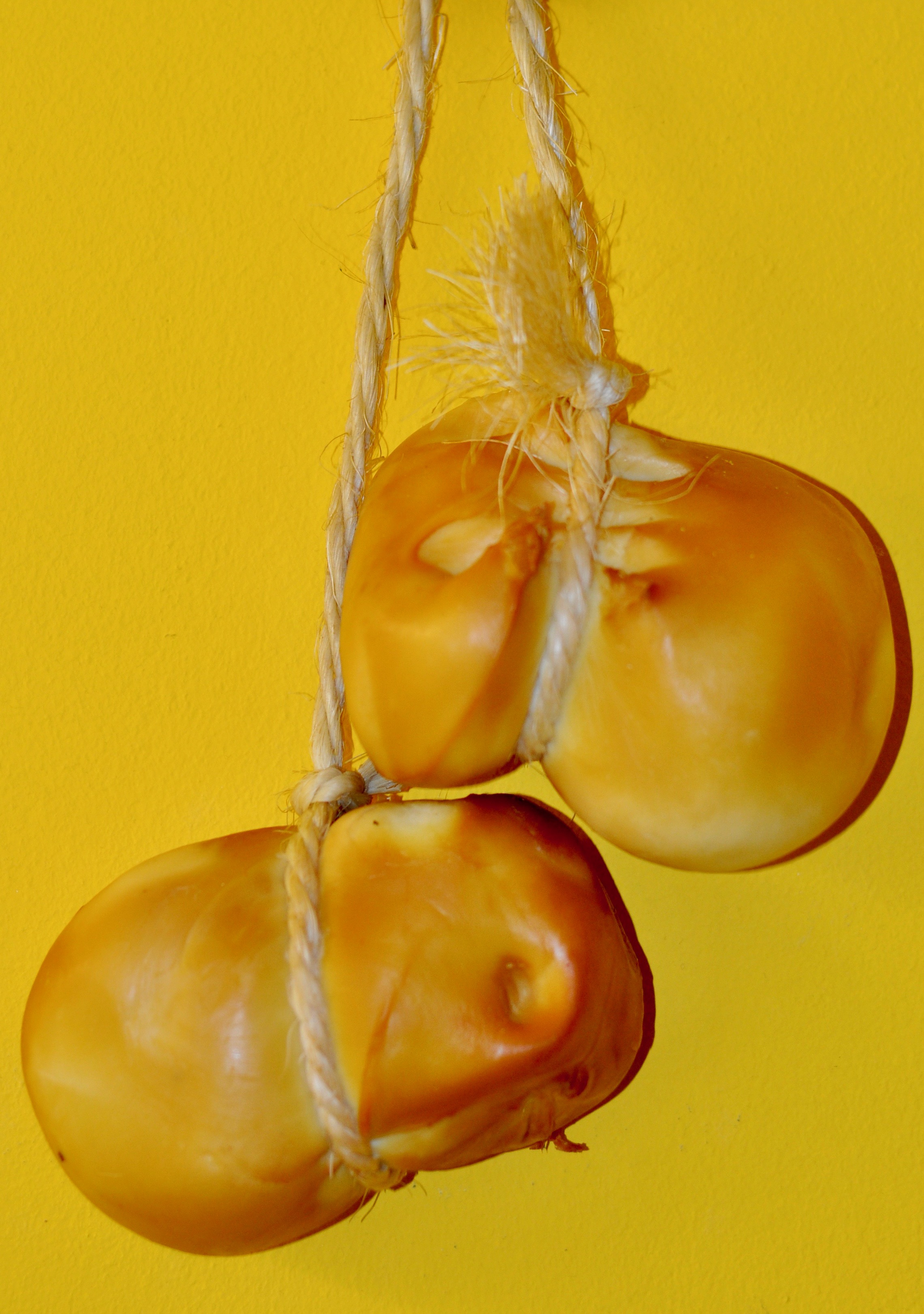 smoked cheese